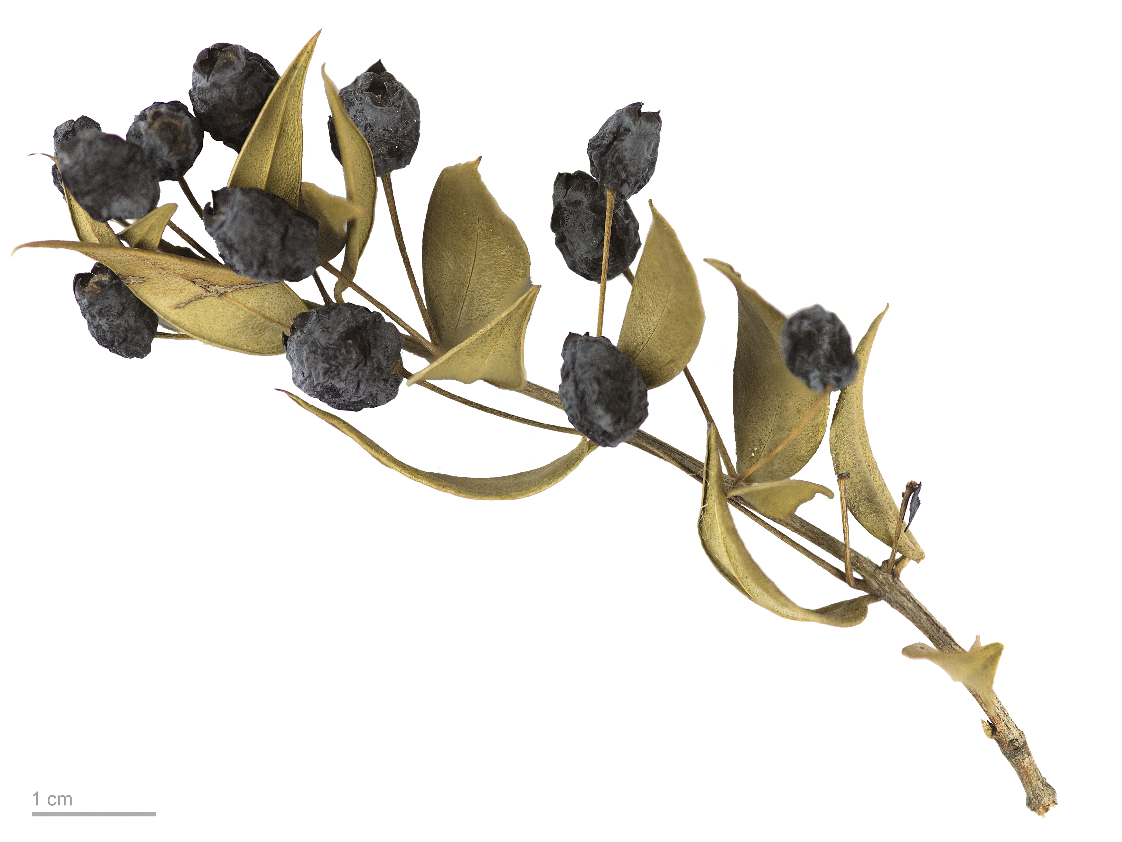 myrtle , fruits and seeds